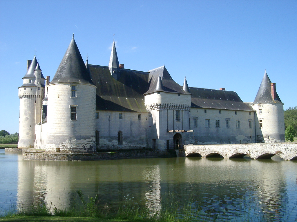 Castle Le Plessis-Bourré, located near the village of Écuillé in Maine-et-Loire département, France, seen from the south-east.